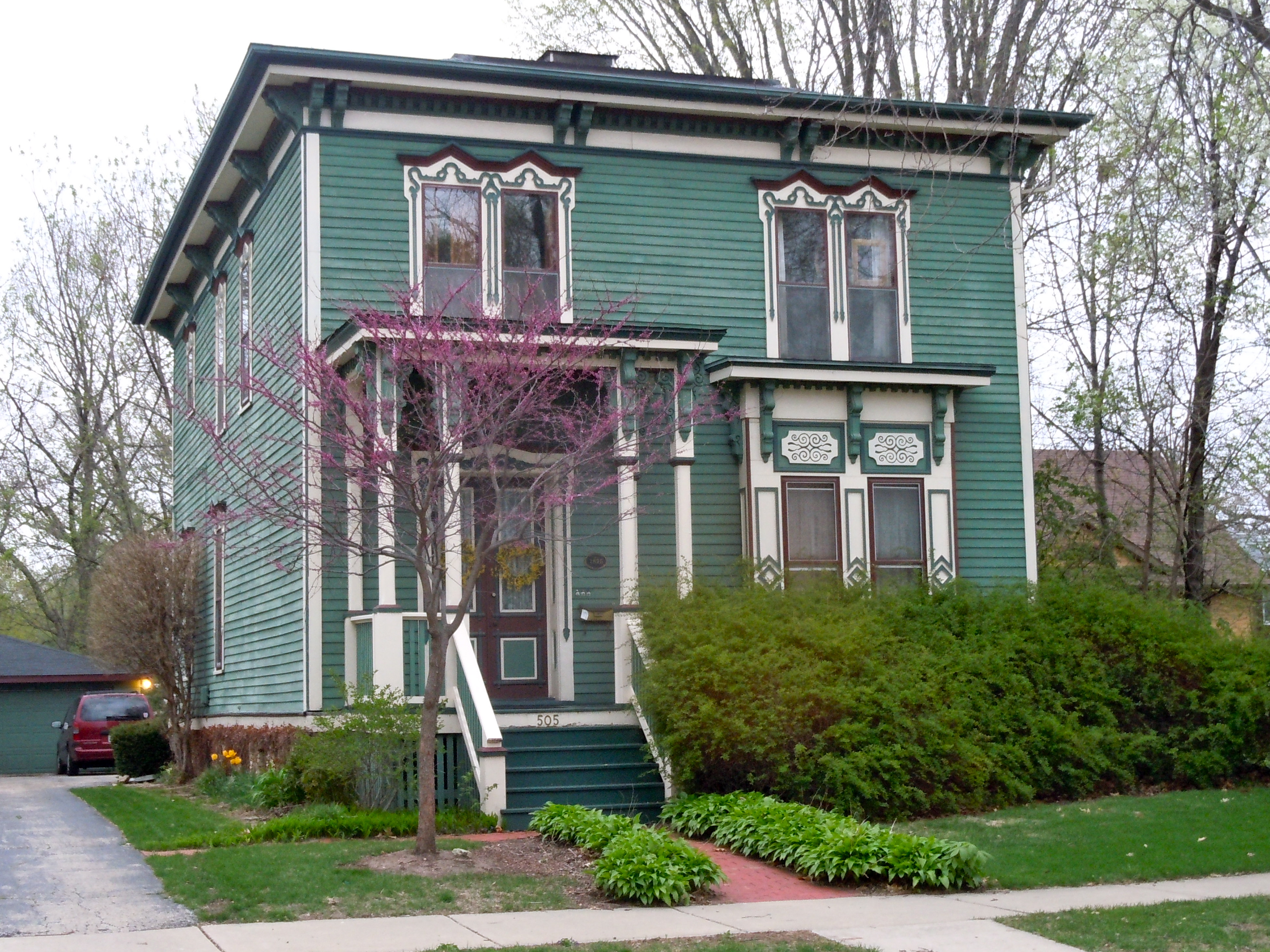 House in the Upper Bluff Historic District on the NRHP since June 5, 1991. The historic district is roughly bounded by Taylor, Center and Campbell Streets and Raynor Avenue, in Joliet, Will county, Illinois, just east of the Des Plaines River.